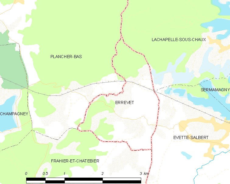 Map of French municipality